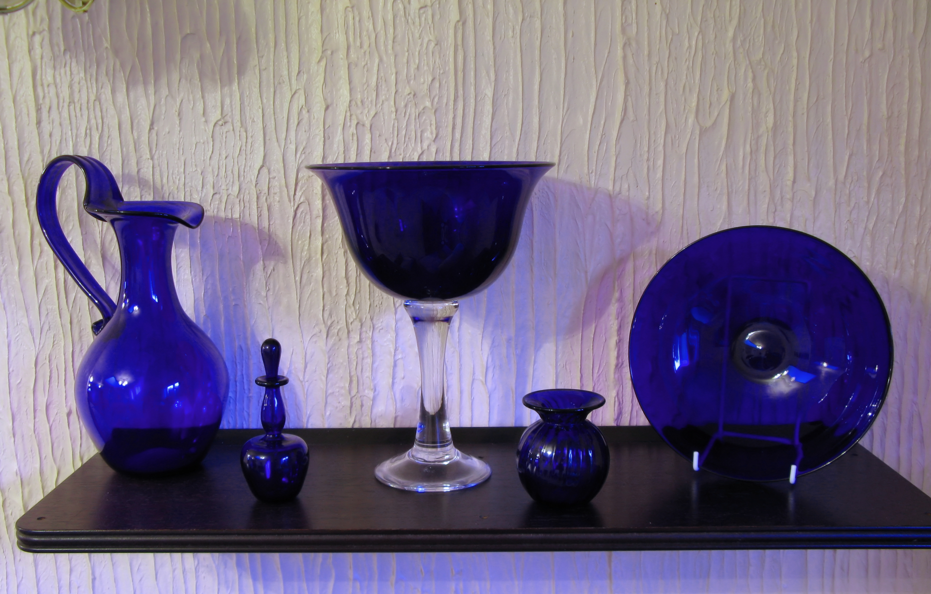 Bristol Blue pieces on a shelf. The goblet in the centre is 11 inches high (27.94 cm).